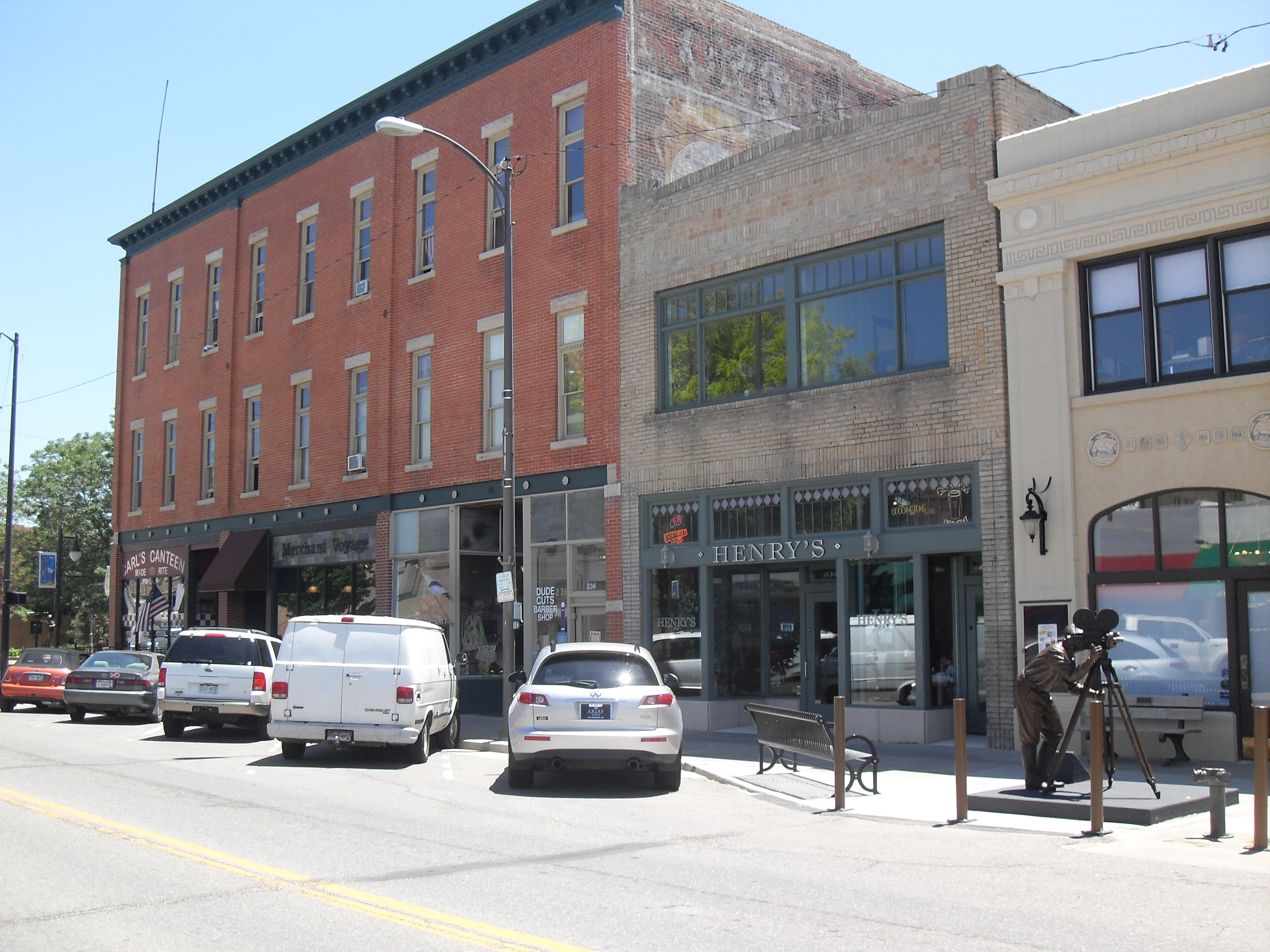 4th Street in Loveland CODowntown Loveland Historic District